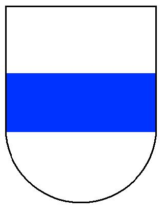 Escutcheon - the oldest family Brok / Brock begins and ends with a Niels Brock. Jysk Uradel (-1293-1413 -). Colors unknown, possibly blue bar in silver (white) field.